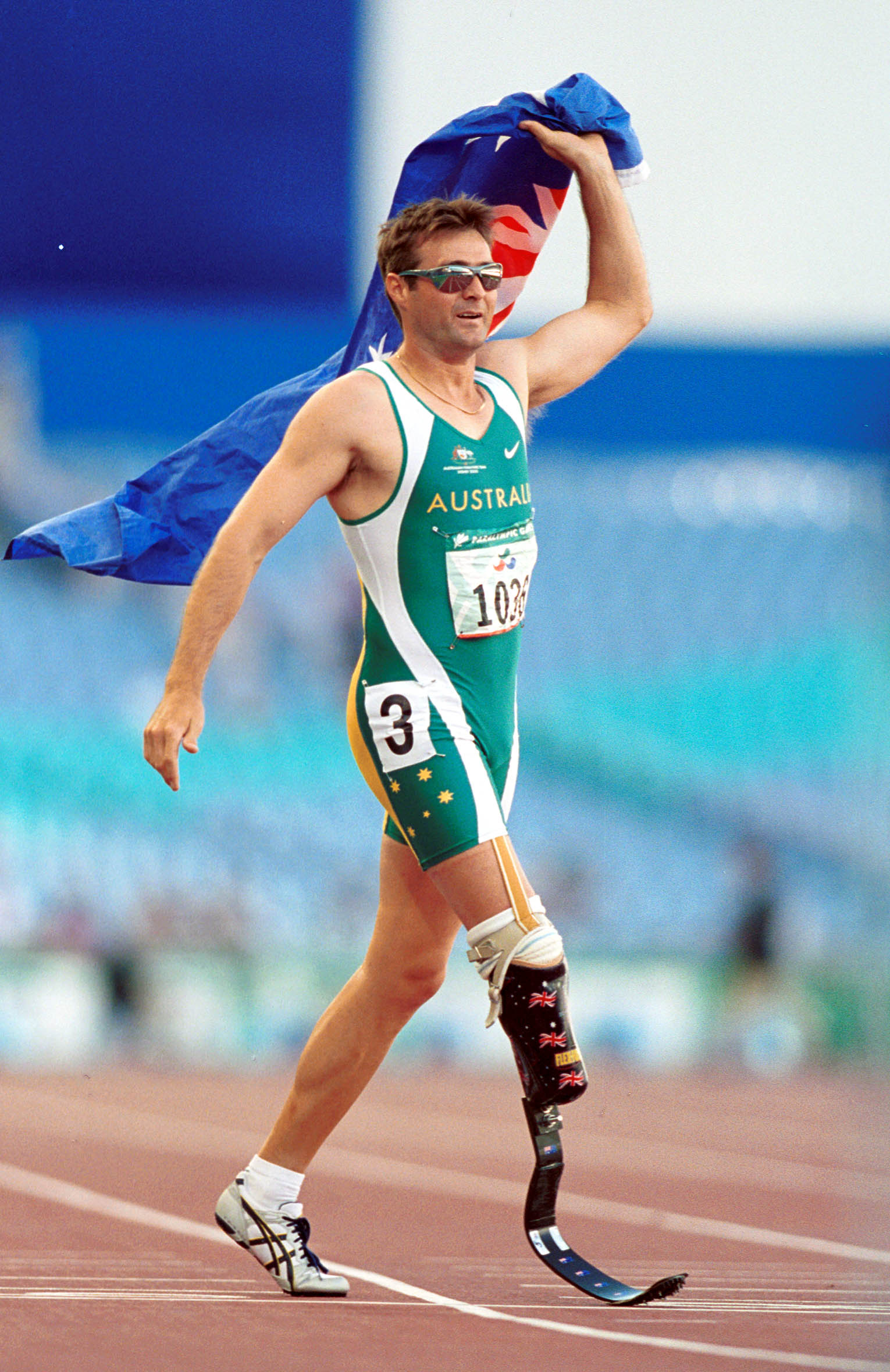 Australian track athlete Neil Fuller carrying the Australia flag on the athletics track at the 2000 Sydney Paralympic Games